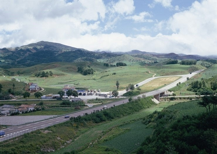 Yeongdong Expressway Hoenggye Intersection(1980's)